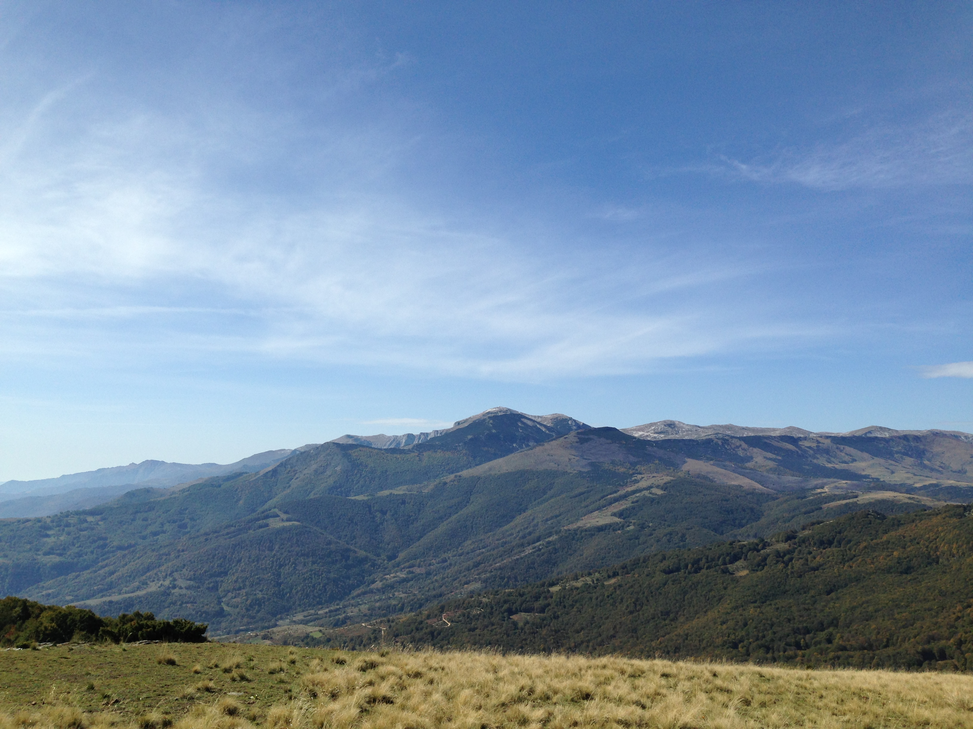 Mokra mountain range seen from Lisec peak, Macedonia